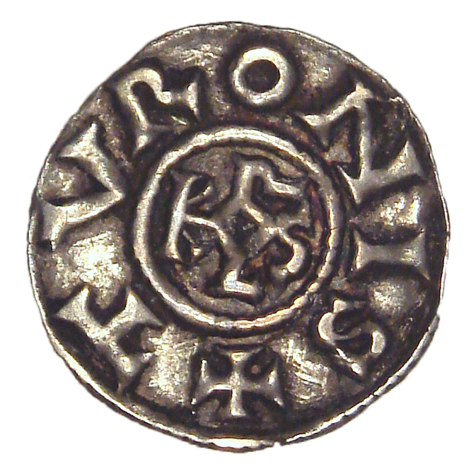 Charlemagne_denier_Tours_793_to_812.